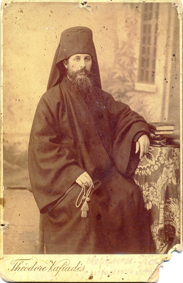 Archimandrite Kalistrat Zografski (circa 1830-1914).